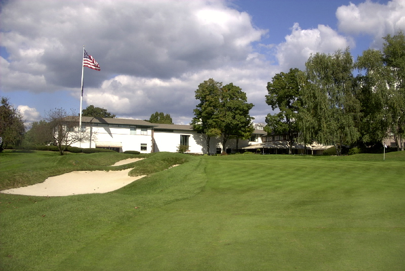 Near the eighteenth green of the South Course at the Westchester Country Club. The sportshouse appears in the background with beautiful clouds in the sky.